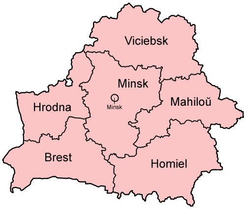 Map of the provinces of Belarus in English, from the English Wikipedia. Made by User:Golbez